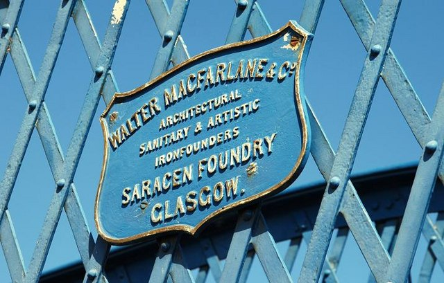 Footbridge, Whitehead station (2). See 1322032. The plaque of the Saracen Foundry, Glasgow. Continue to 1322094.